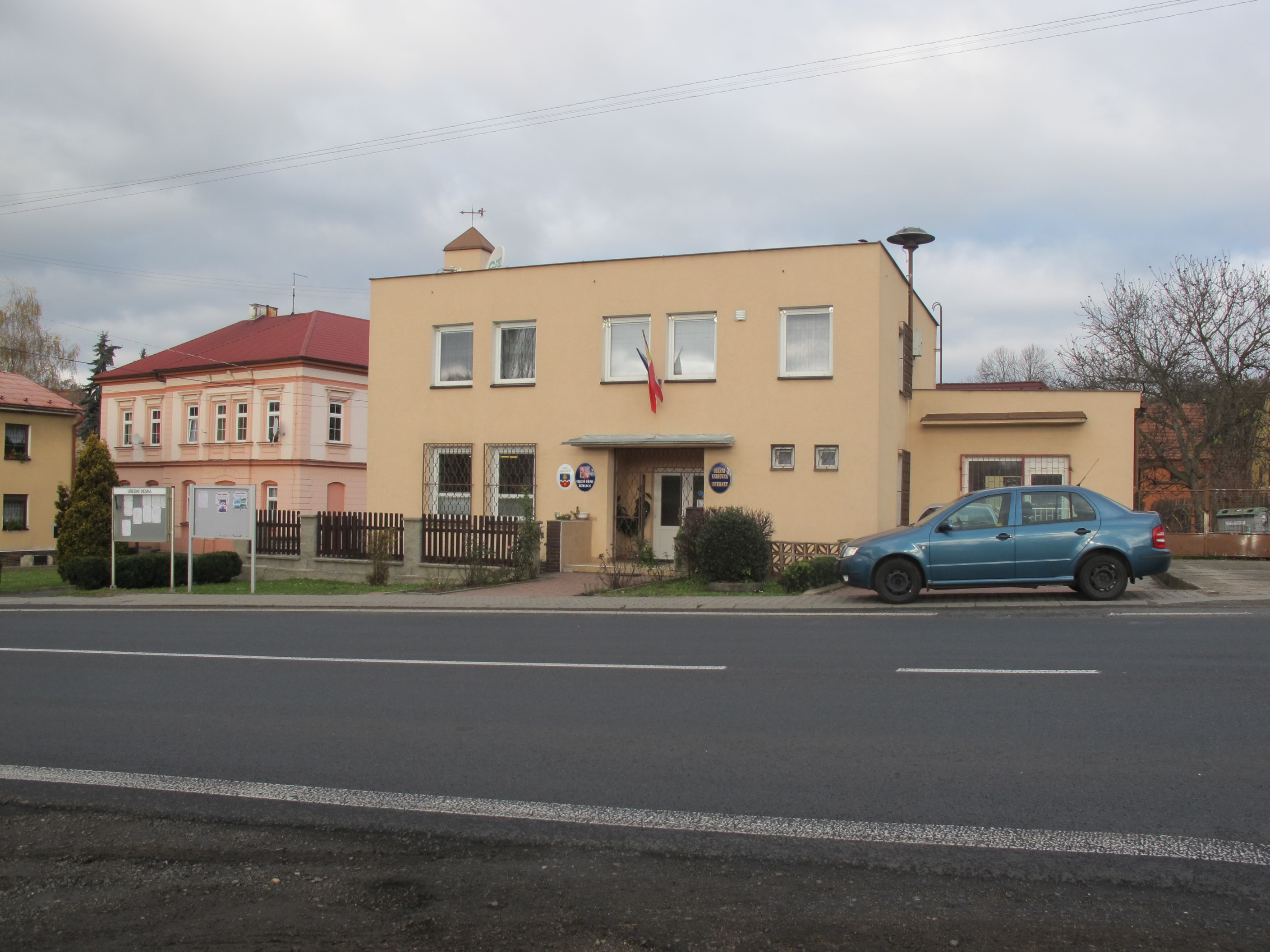 Municipal house in Žiželice